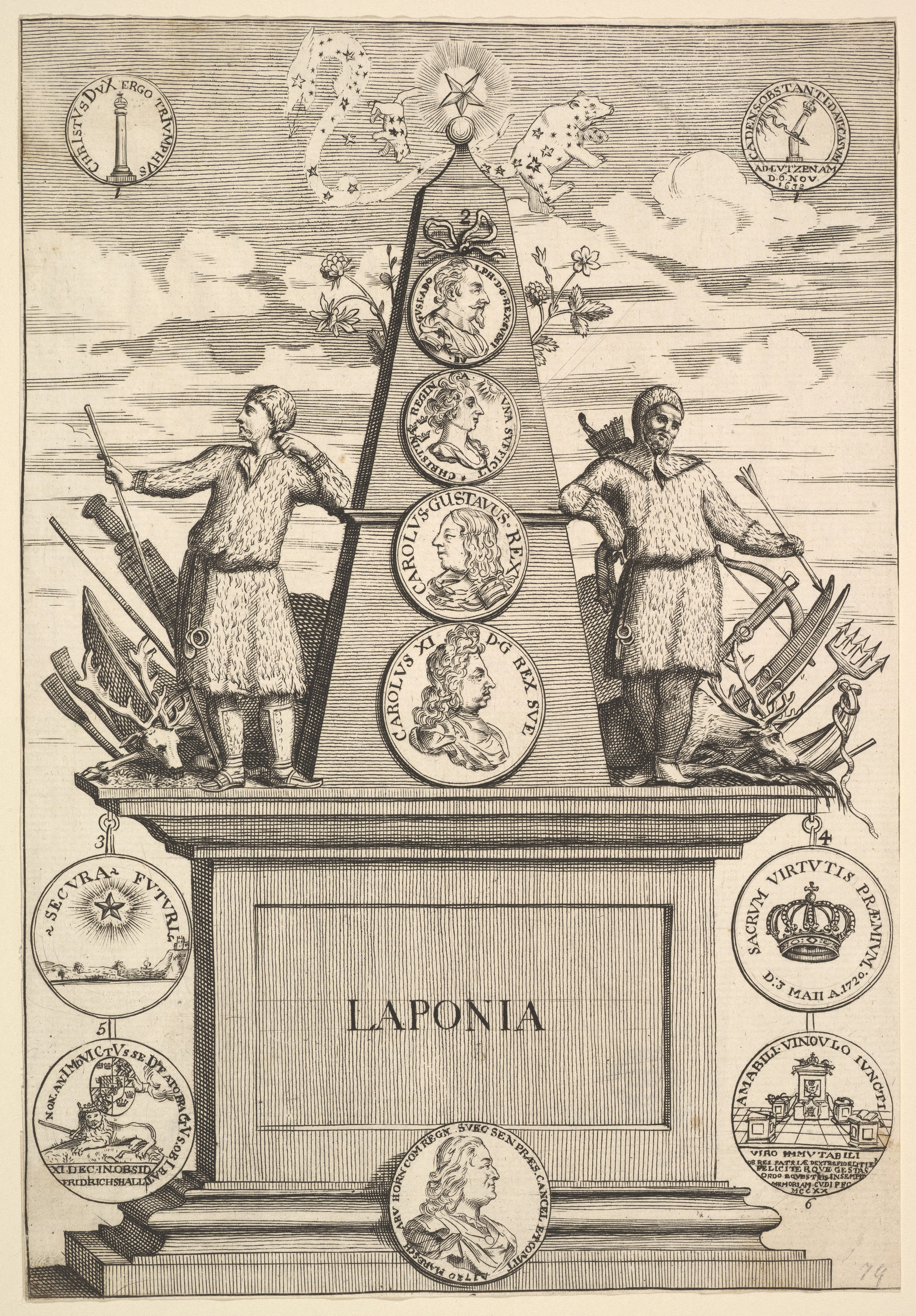 Print; Prints